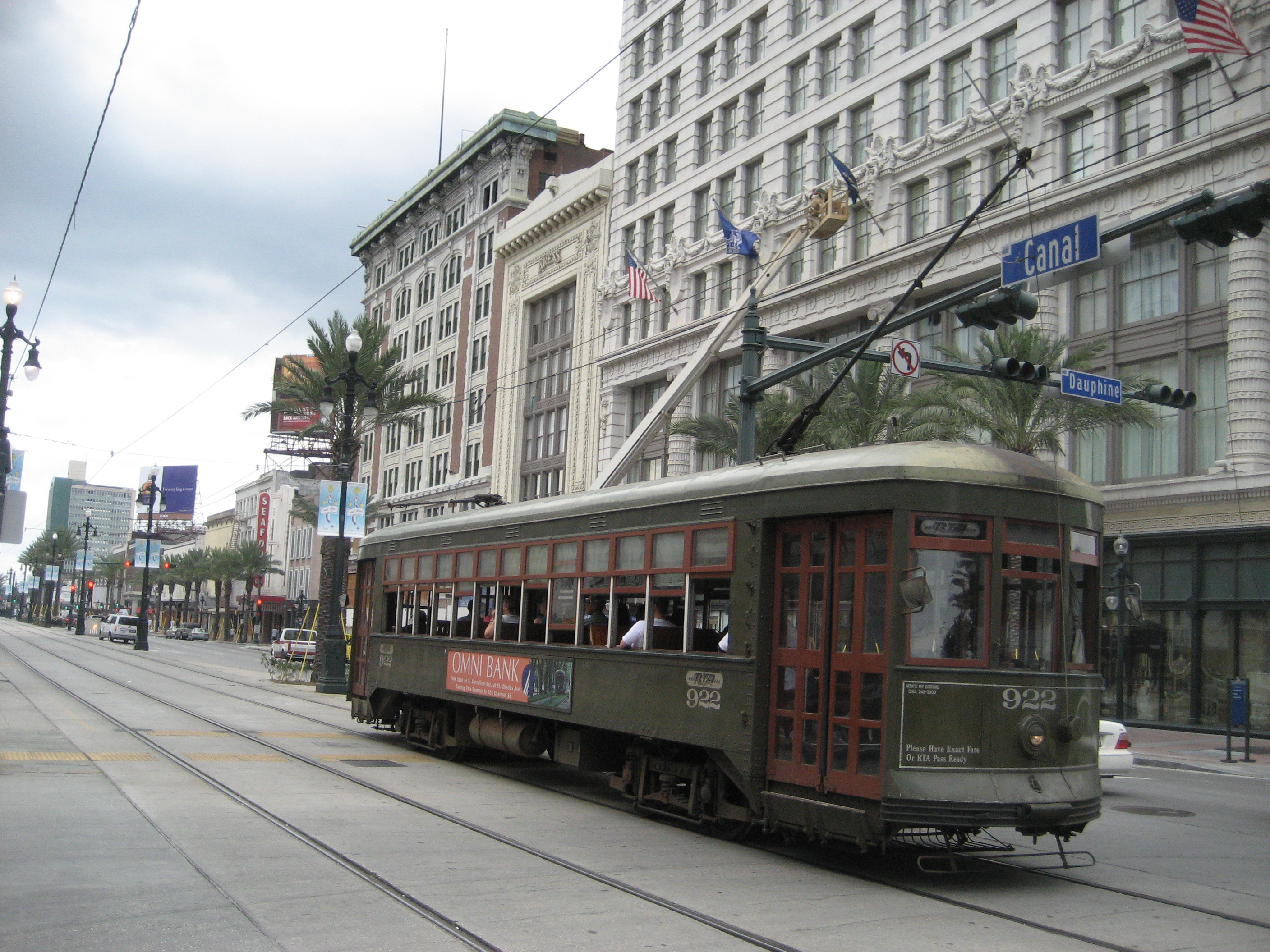 Canal Street, New Orleans. 1920s Pearly Thomas streetcar 922 heads out past the Maison Blanche Building.